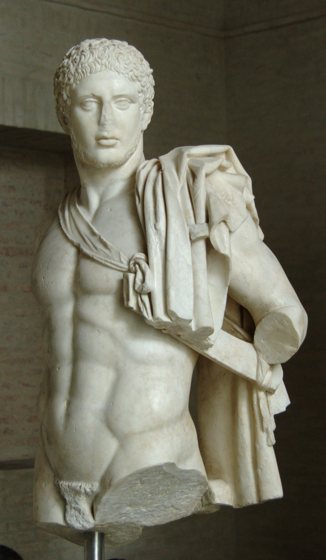 So-called “Munich Diomedes”. Roman copy after a Greek original from ca. 440–430 BC, attributed to Kresilas.